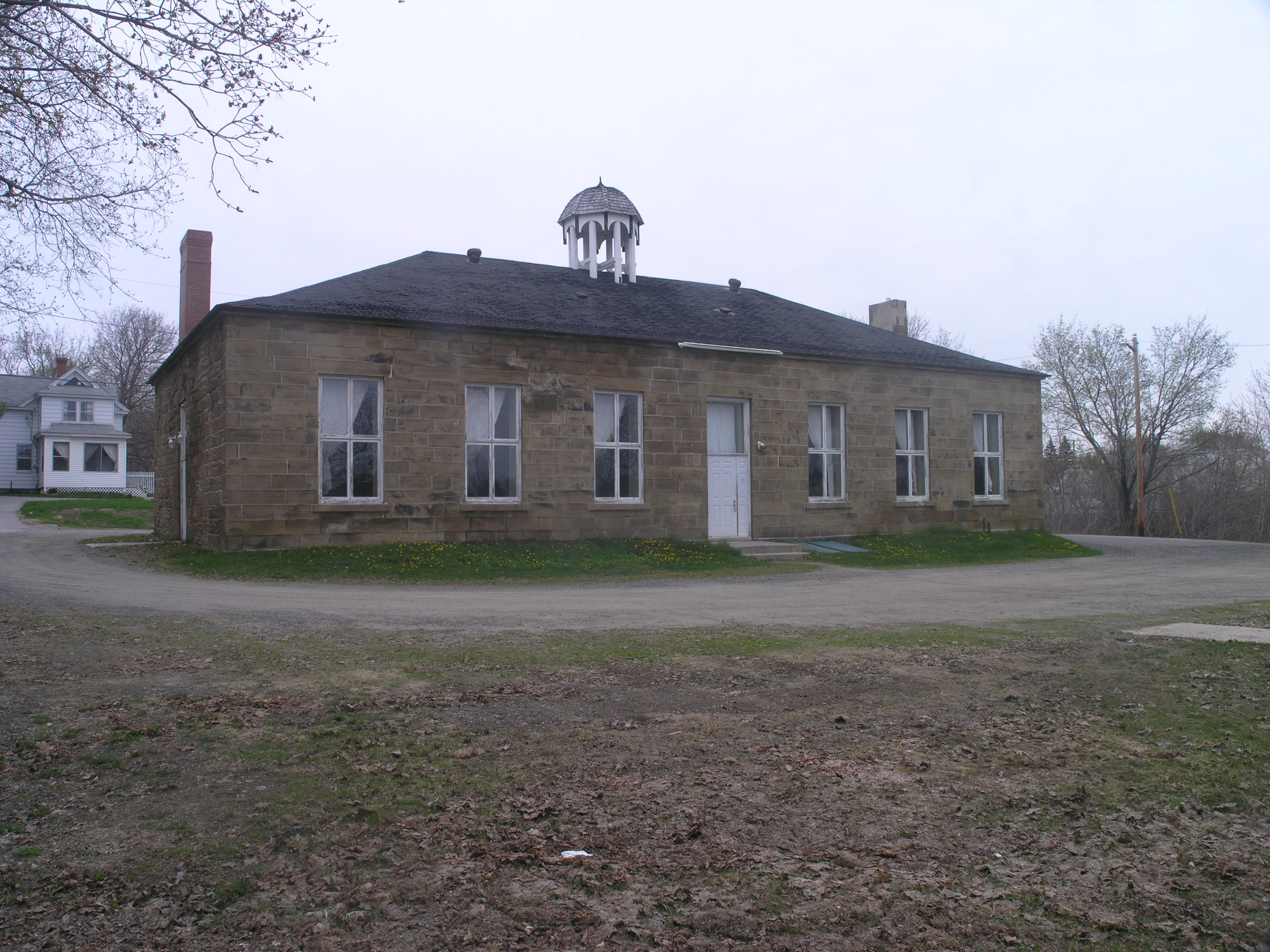 Marine Hospital historic site on waterfront of Miramichi (IR Walker 2008)